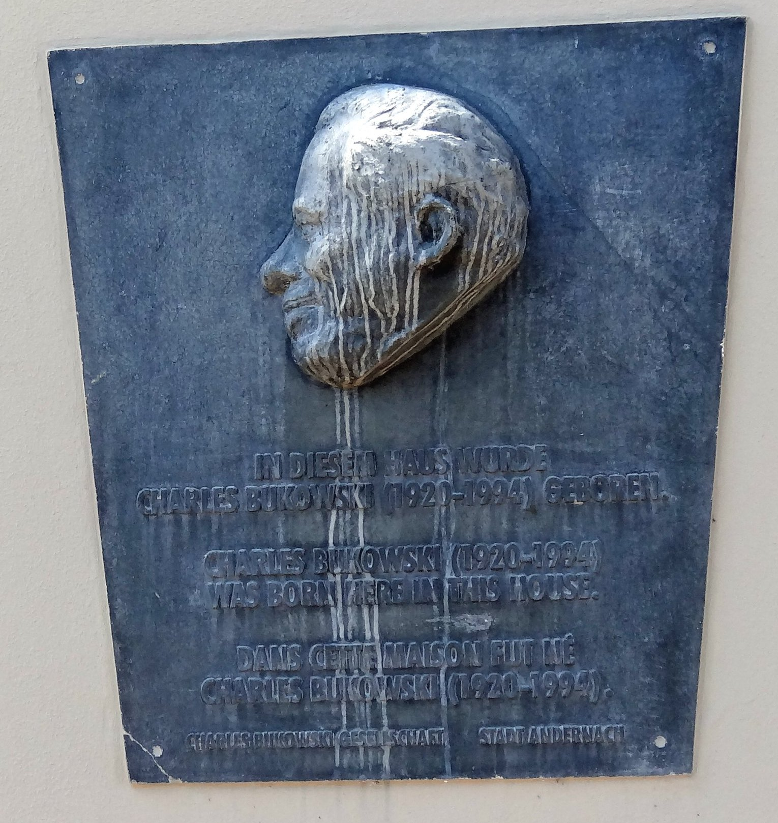 Charles Bukowski Andernach tablet birthplace